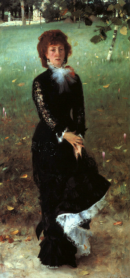 Madame Edouard Pailleron John Singer Sargent -- American painter 1879 The Corcoran Gallery of Art, Washington DC Oil on canvas 208.3 x 100.4 cm (82 x 39 1/2 in.) Gallery Fund and Gifts of Katherine McCook Knox, John A. Nevius and Mr. and Mrs. Landsell K. Christies Jpg: CGFA